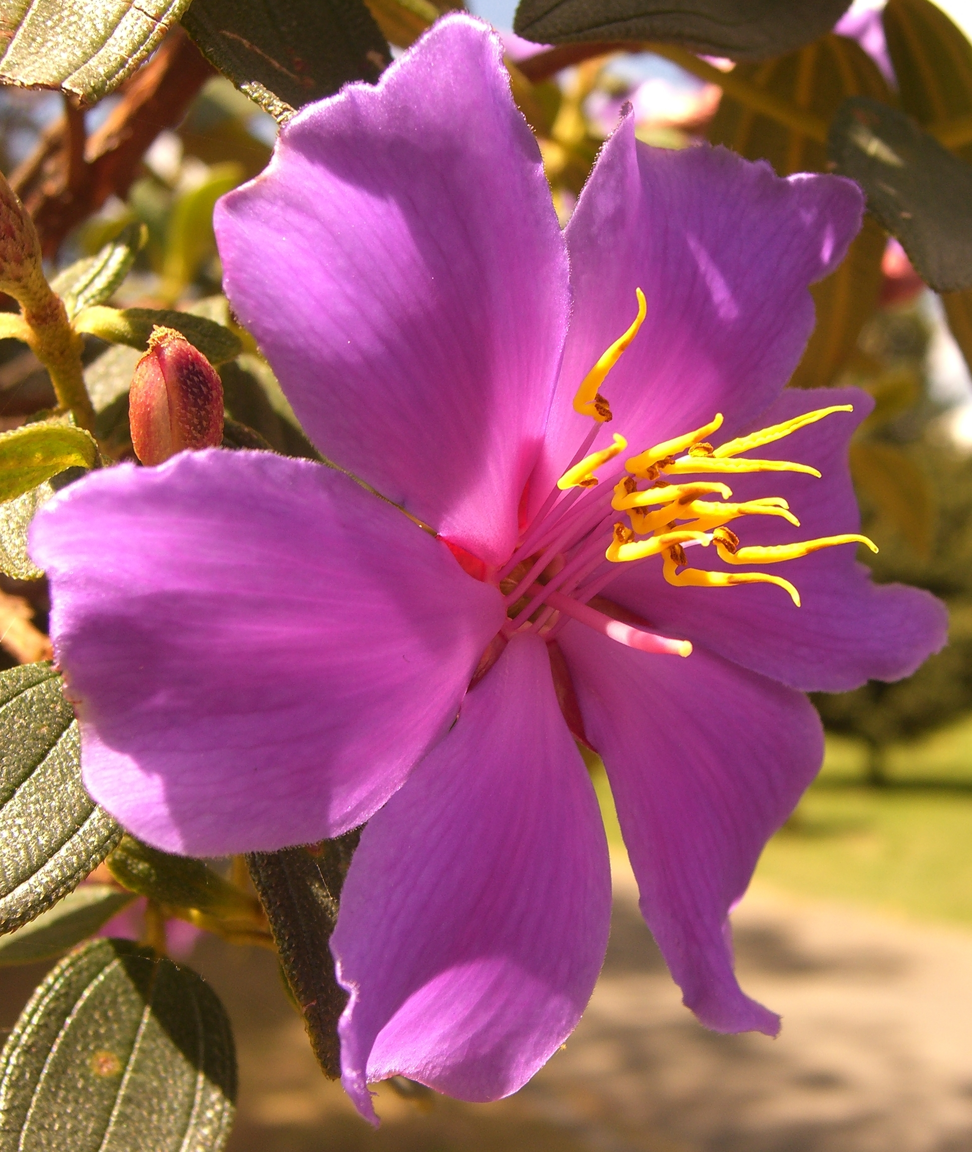 Please report references to .